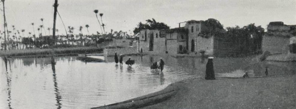 NATIVE VILLAGE.Several people walking through a shallow body of water in front of a group of buildings, with palm stands in the background.